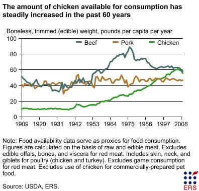 Graphic shows consumption of beef, pork, and chicken from 1960-2004